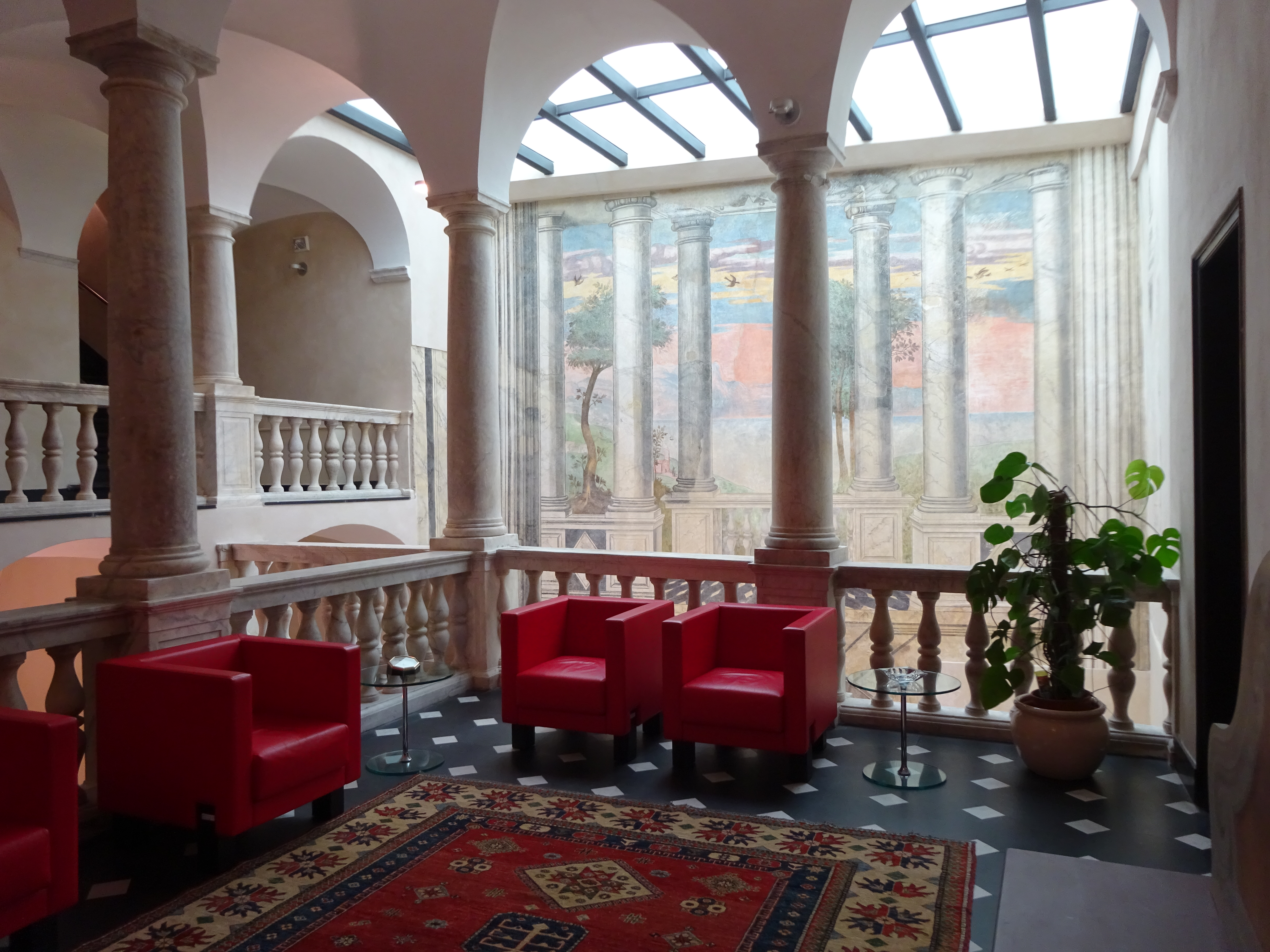 Interior of Palazzo Doria Carcassi in Genoa